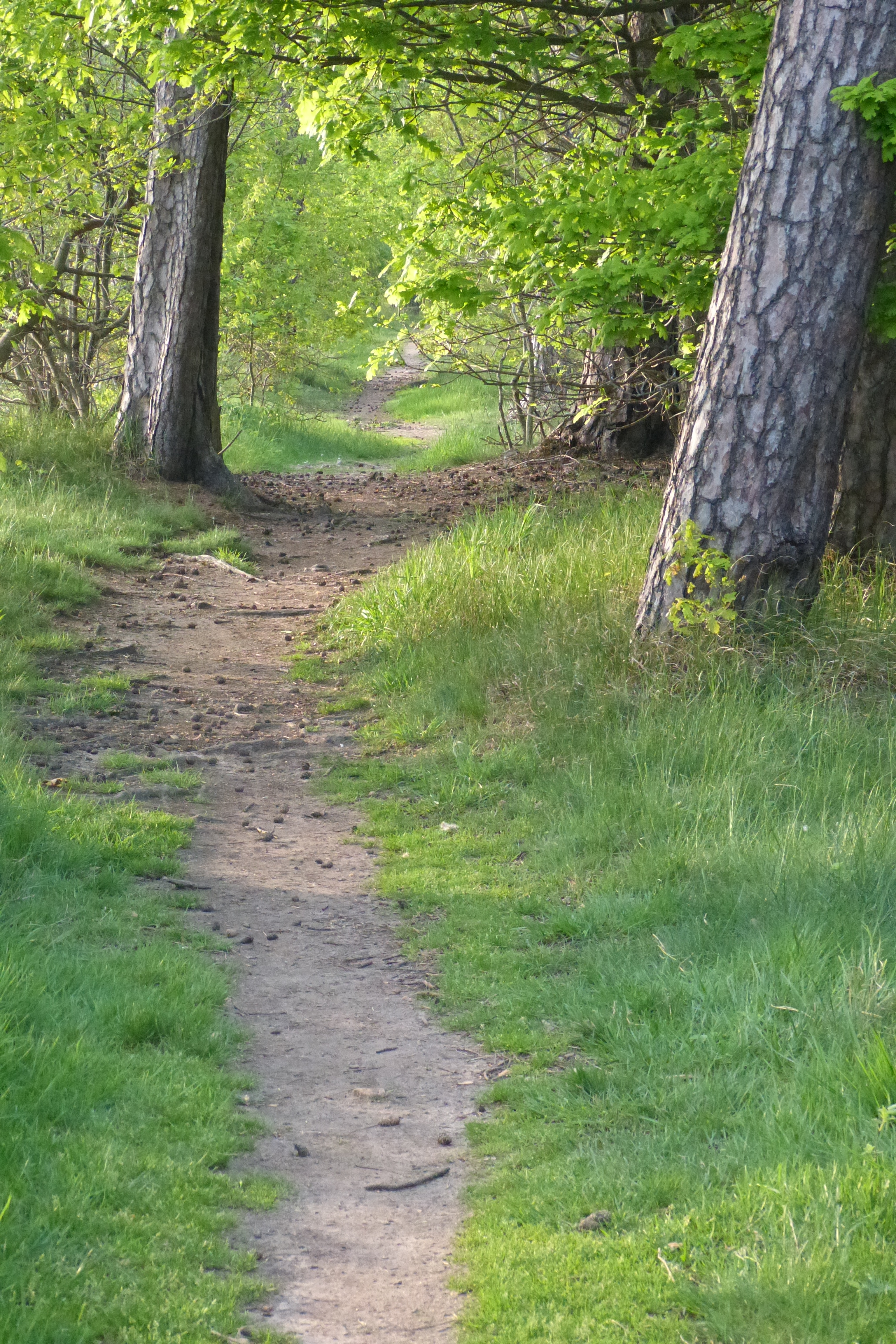 Hiking path at Rhedaer Forst